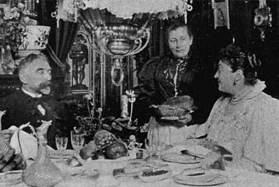 Méry Laurent (French actress, †1900), Stéphane Mallarmé (French poet, †1898) and Méry Laurent's servant Élisa Sosset.